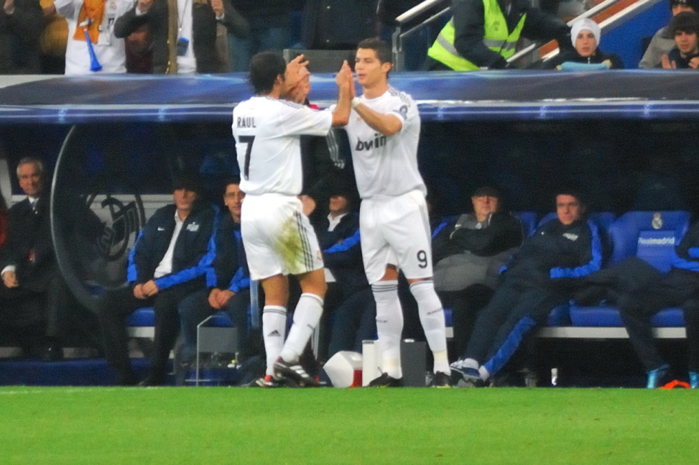 Raul and Cristiano Ronaldo